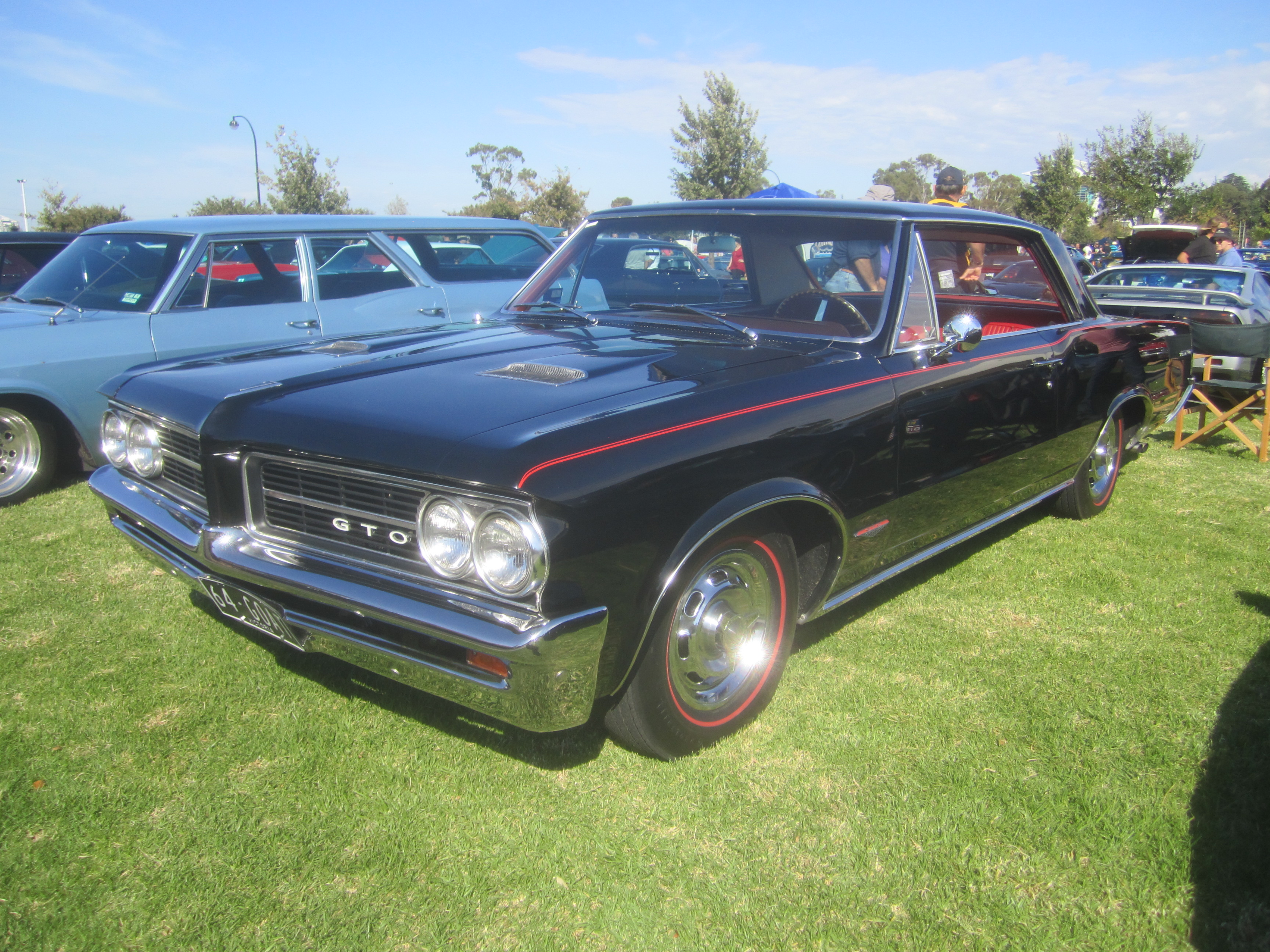 1964 Pontiac GTO Hardtop. Pontiac wanted a performance package for its Tempest using the larger 325hp 389 cu in V8, so the GTO option was introduced in 1964, it was available on the 2 door coupe, hardtop coupe and convertible. It also got dual exhaust, chrome valve covers and air cleaner, floorshift with Hurst shifter, stiffer springs and a hood scoop. 348hp Tri Power was an option